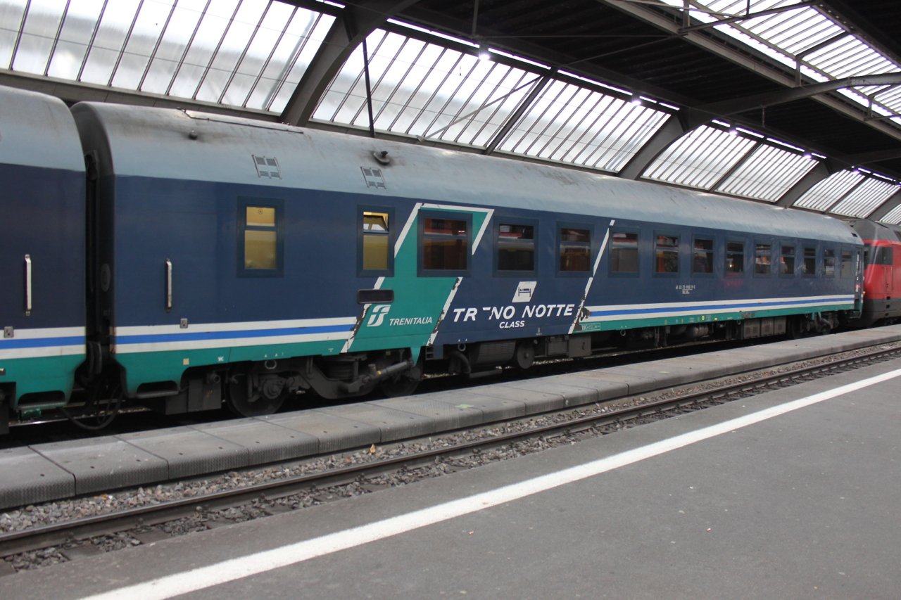 Trenitalia WLABm 61 83 72-90 019-0 I-FS at Zürich main station in the consist of EN 314 "Luna" Roma Termini — Zürich HB.